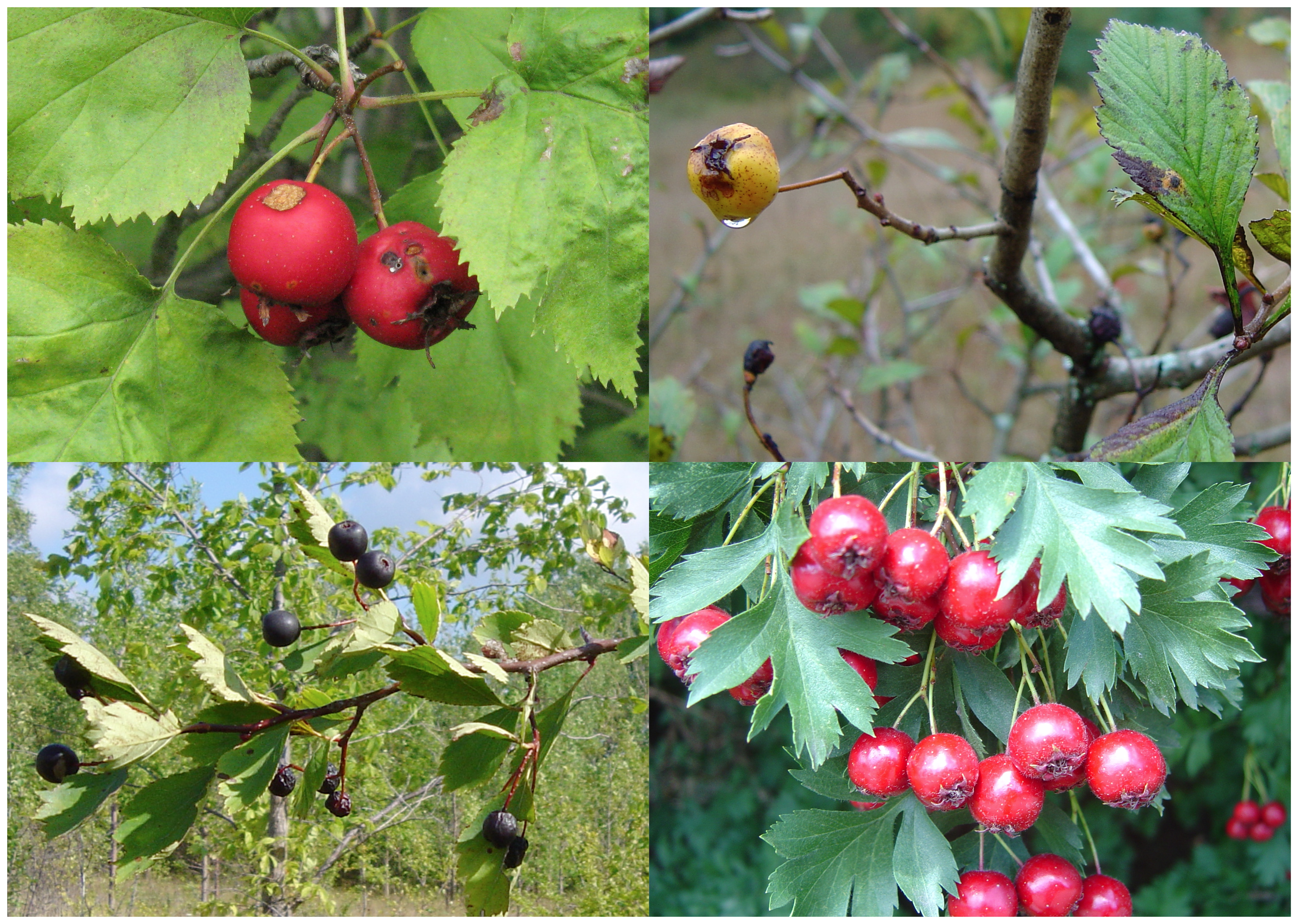 Fruit of four species of Crataegus, clockwise from top left: Crataegus coccinea, C. punctata var. aurea, C, ambigua, C. douglasii